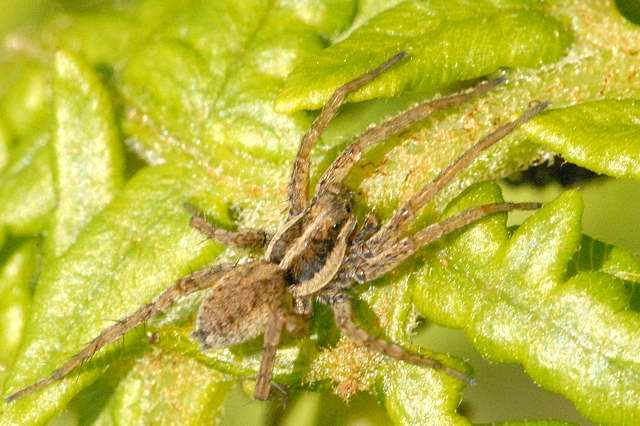 Pardosa palustris from Commanster, Belgian High Ardennes .